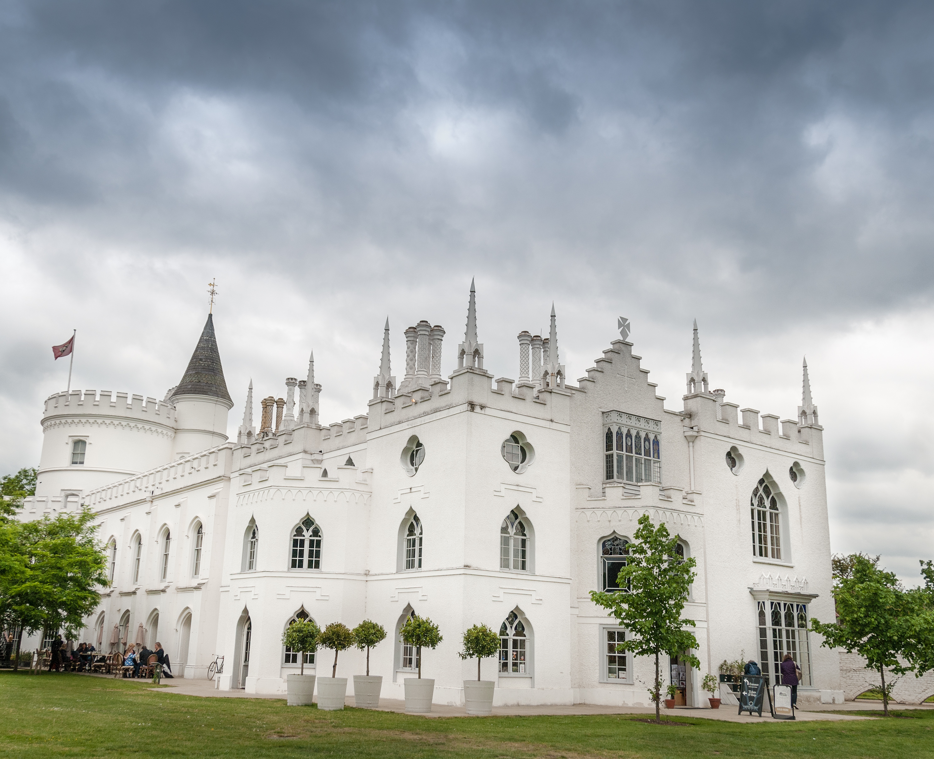 Horace Walpole's gothic castle